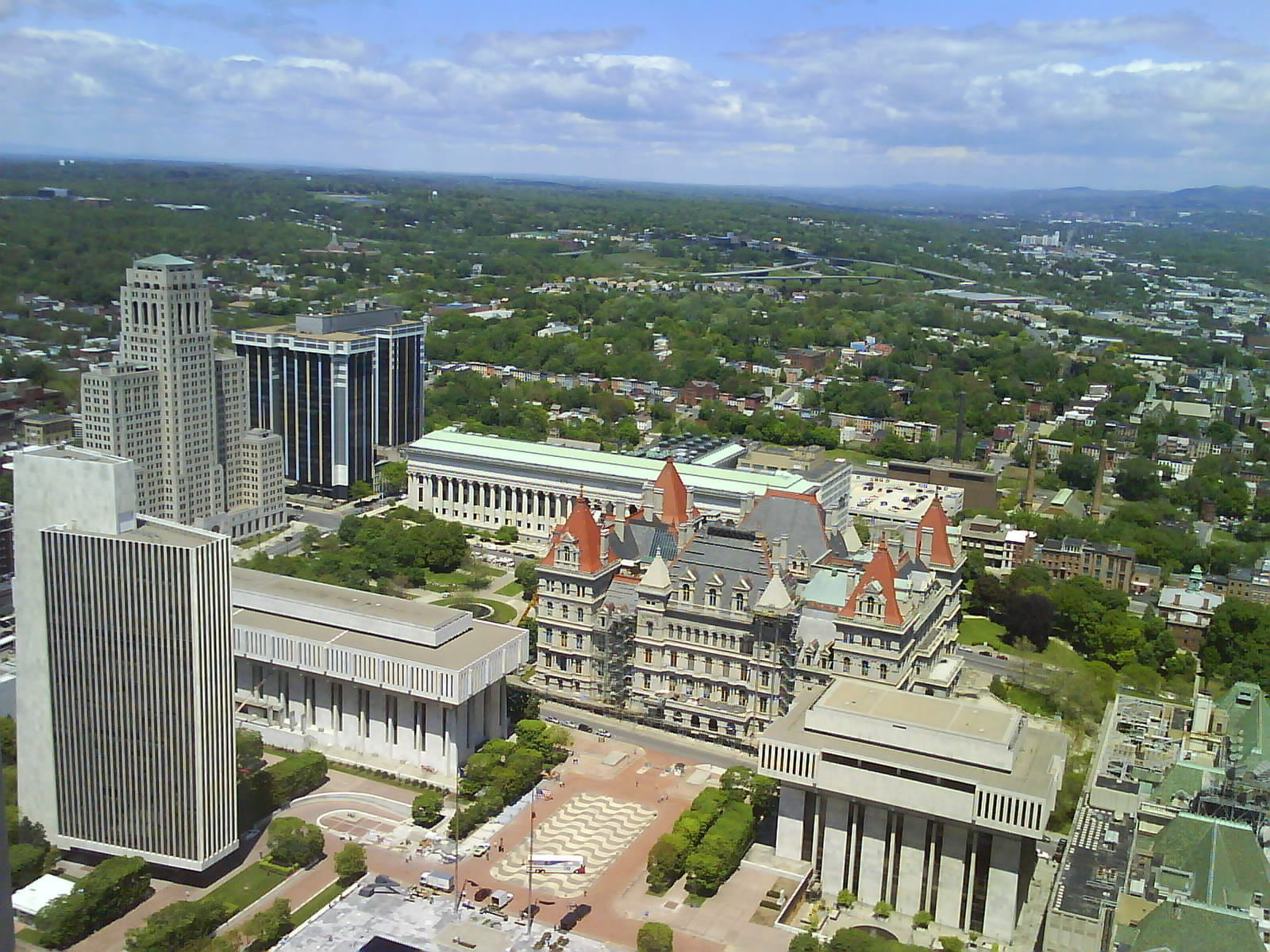 View from the Corning Tower Observation Deck located on the 42nd floor, in Albany, New York, United States